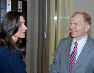 Ambassador William H. Moser and Georgian Deputy Minister of Internal Affairs Ekaterine Zguladze chat before the conference.